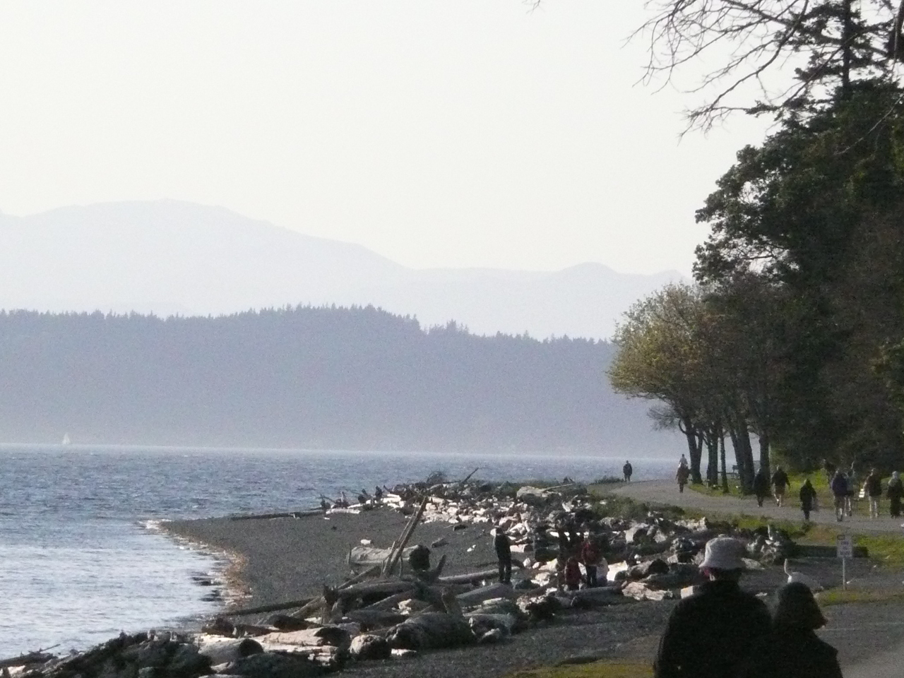 Waterfront walk in Lincoln Park, Seattle, looking northwest. The water is Puget Sound.